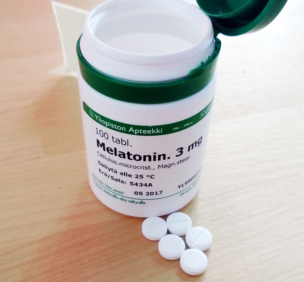 Helsinki university pharmaneutical laboratory prepared tabl. Melatonin 3 mg available upon prescription. Country of origin: Finland.